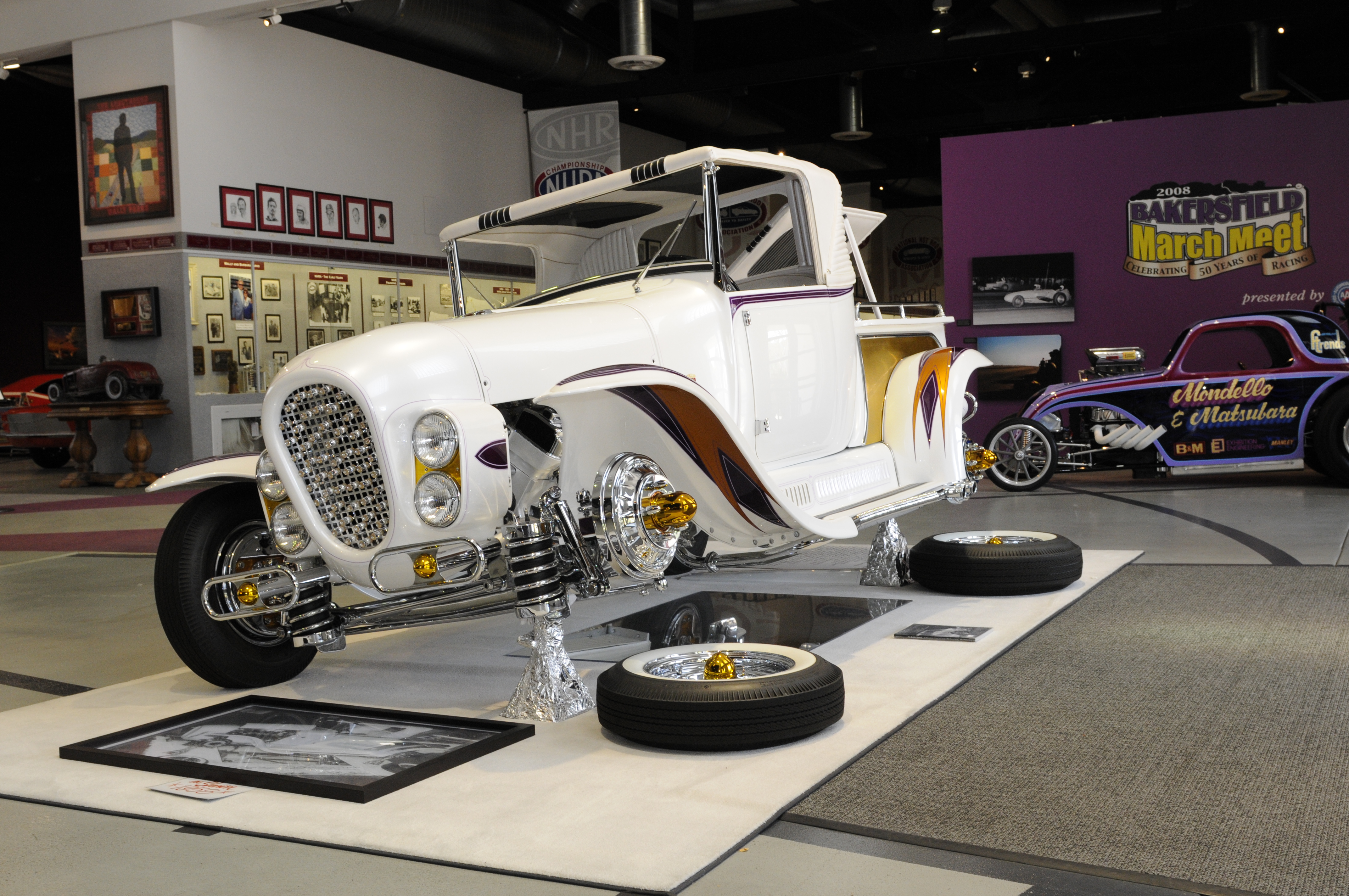 The restored Ala Kart 1957 Kustom, orginially by George Barris, housed in the Wally Park NHRA Motorsports Museum.